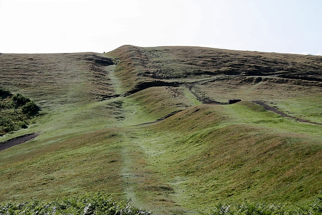 Along the Shire Ditch to Broad Down Looking along the Red Earl's Dyke, defining the county boundary between Worcestershire and Herefordshire, towards Broad Down. Behind the camera is Millennium Hill, the southern peak of the iron-age hill fort of British Camp. Here in the "saddle" between the two hill tops the very popular path from the car park to Clutter's Cave crosses from left to right. A squat circular guide indicator (just to the right of the ditch) directs the visitor to the various routes to take. In the bottom of the ditch, on the skyline, one can see a boundary stone in silhouette.